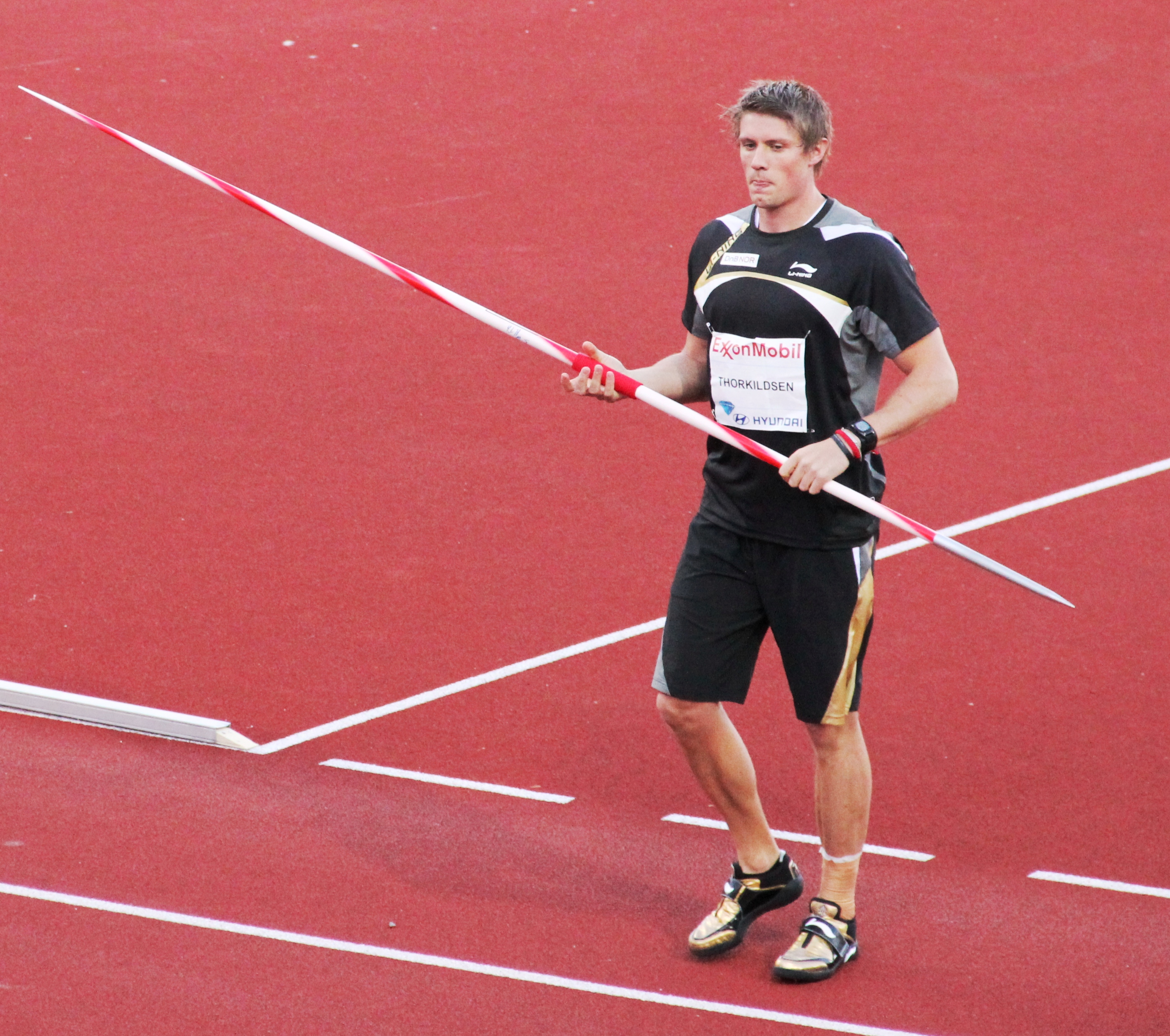 Andreas Thorkildsen at the 2010 Bislett Games